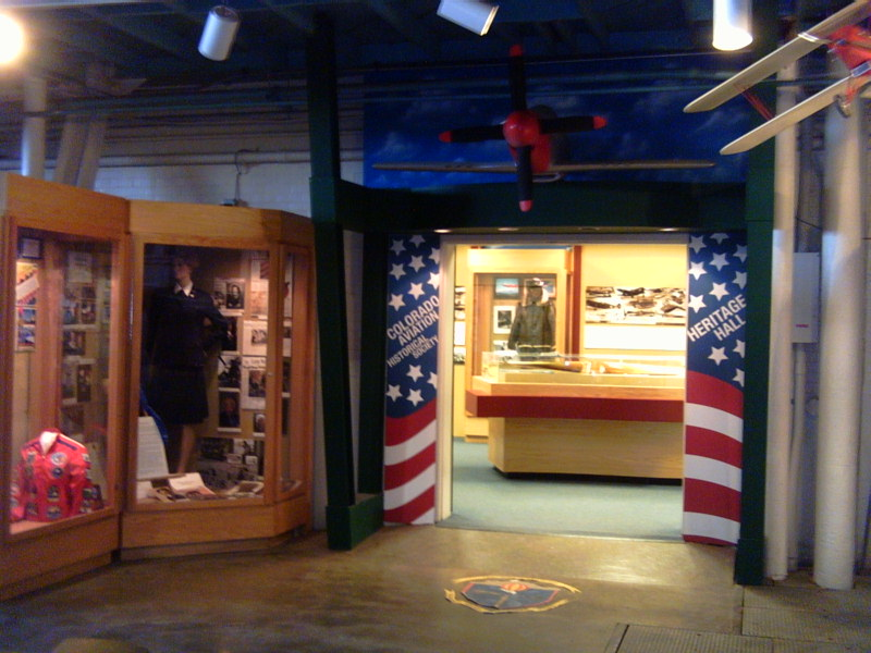 CAHS Heritage Hall, Wings Museum, Denver,CO. Photo courtesy of Lance Barber, volunteer for Colo Av Hist Society, Denver CO. Photo for public use. Request the usual "courtesy of" line for outside Wikipedia. Digital camera-Vivitar 3642